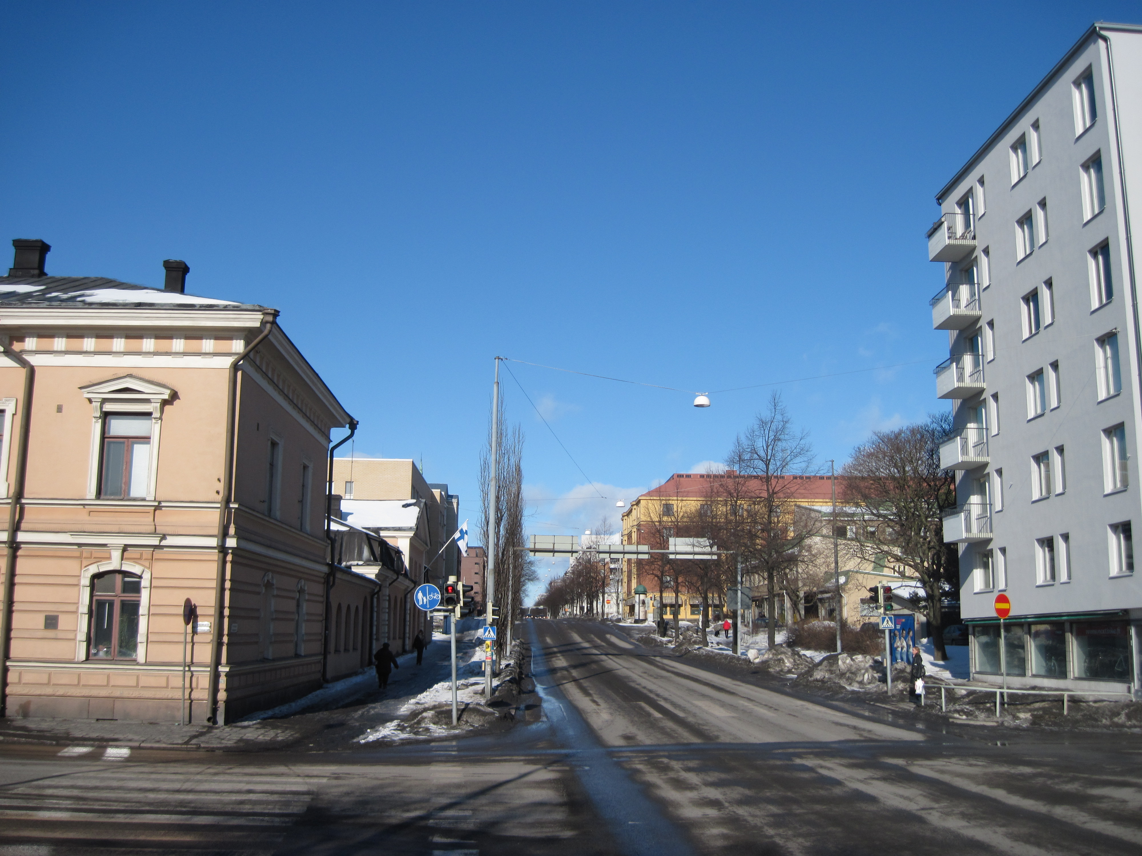 Puistokatu in Turku, viewed from Aurajoki